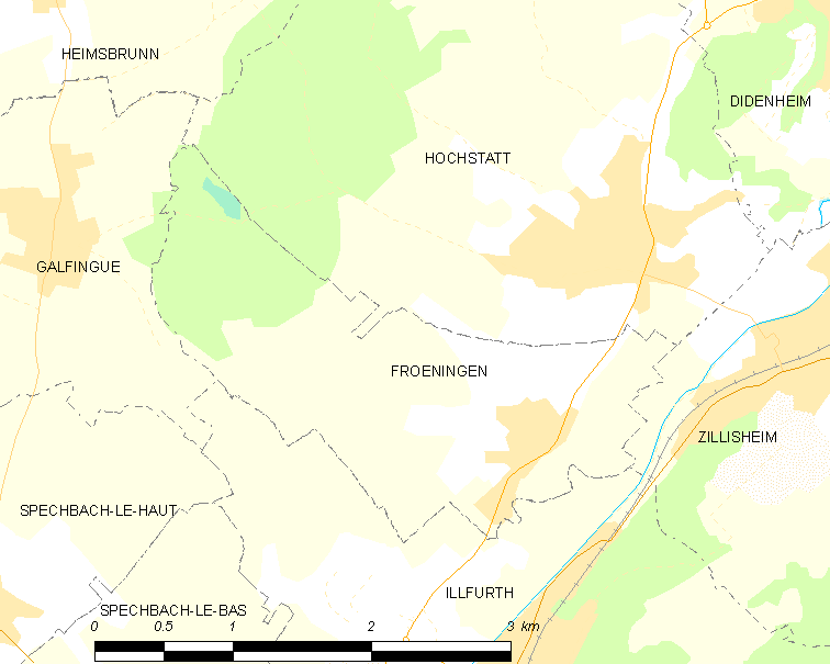 Map of French municipality